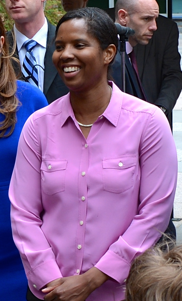 U.S. Secretary of State John Kerry speaks with Sports Envoy Julie Foudy and athletes from local youth soccer organizations at the U.S. Department of State in Washington, D.C., on April 14, 2014. [State Department photo/ Public Domain]